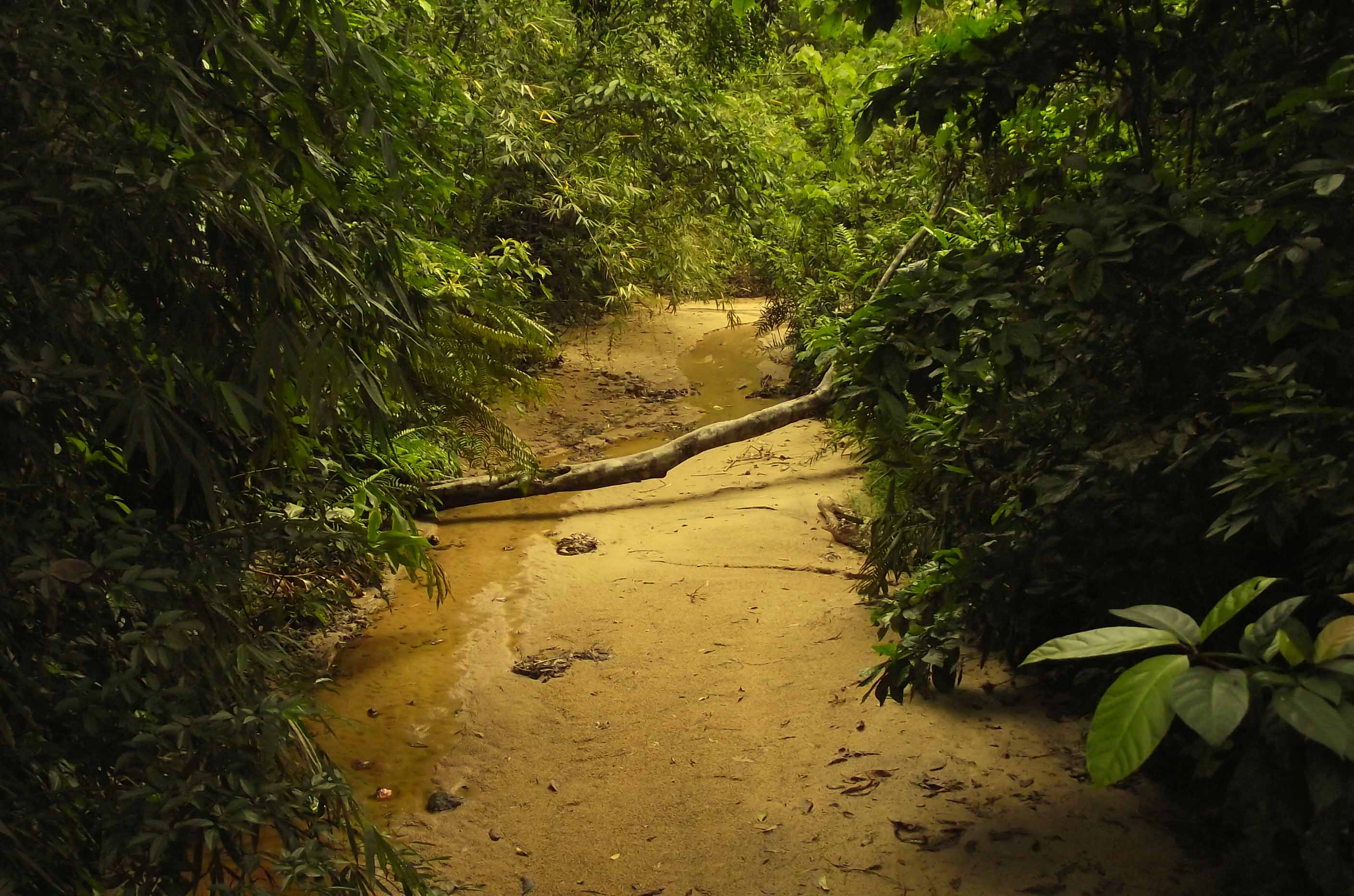 this little canal with sand bed covers the whole national park